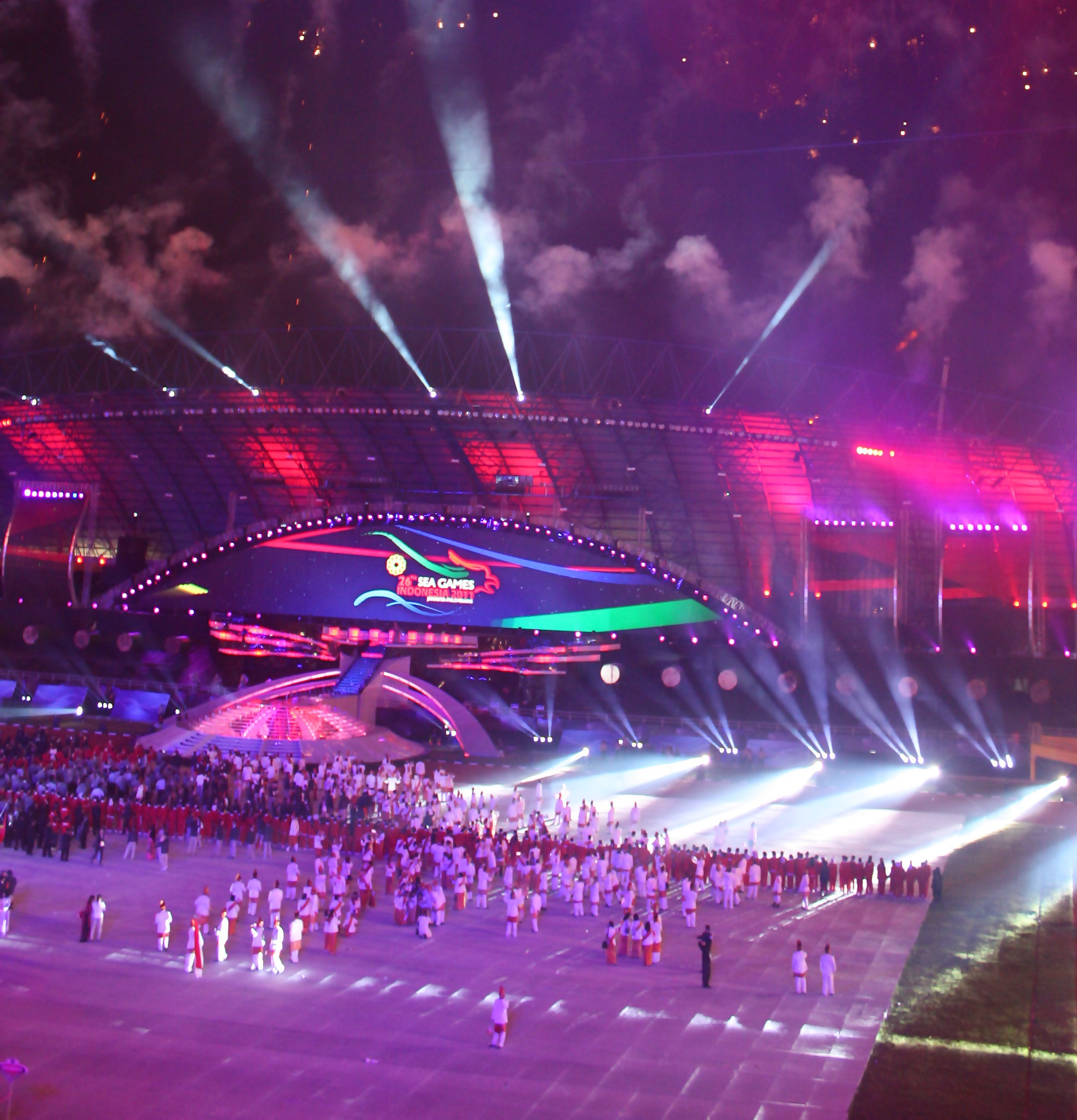 The fireworks after the torch lighting marked the beginning of XXVI Southeast Asia Games 2011 opening ceremony in Gelora Sriwijaya Stadium, Palembang, South Sumatera, Indonesia in auspicious date Friday, 2011-11-11.The largest Southeast Asia multi sport event is hosted in Jakarta-Palembang, Indonesia from 11 to 22 November 2011.